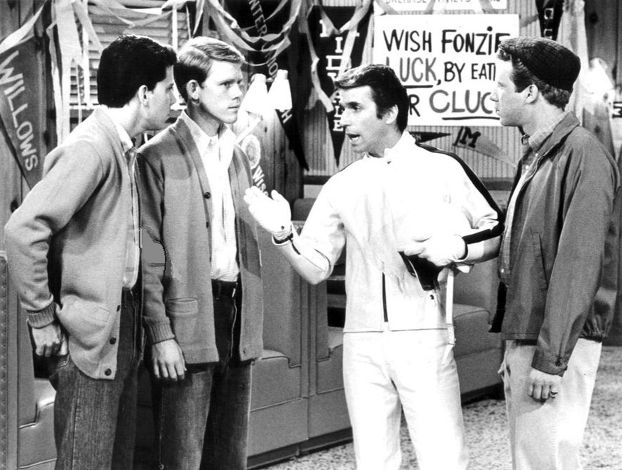 Publicity photo from Happy Days. Pictured are Potsie (Anson Williams), Richie (Ron Howard), Fonzie (Henry Winkler) and Ralph Malph (Donny Most) at Arnold's drvie-in. The episode deals with Fonzie's attempt to set a record by leaping over 14 garbage cans with his motorcycle.